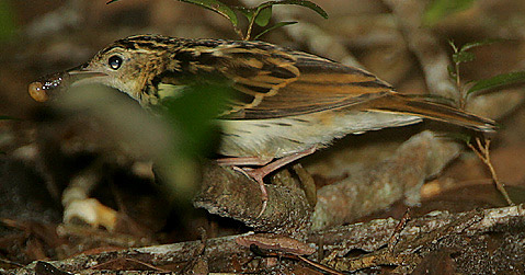 A small heavily spotted forest pipit which is confined to a very few patches of forest in coastal Kenya and the Usambara hills of Tanzania. Little is known about this endangered range-restricted species. We watched two birds feeding on the forest floor where they took spiders and small snails (which they seemed to be able to remove from their shells intact). I found them to be very difficult wee birds to photograph due to their hyperactivity and the poor light levels on the forest floor.